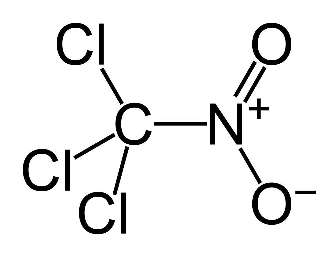 Description: Structural formula of chloropicrin (Trichloronitromethane; CCl3NO2). Author, date of creation: self made by Ben Mills at 17:51, 10 March 2006 (UTC). Source: user-created image Comments: high-resolution black and white PNG; ChemDraw / Photoshop.